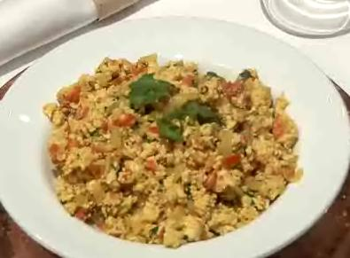 Egg bhurji.